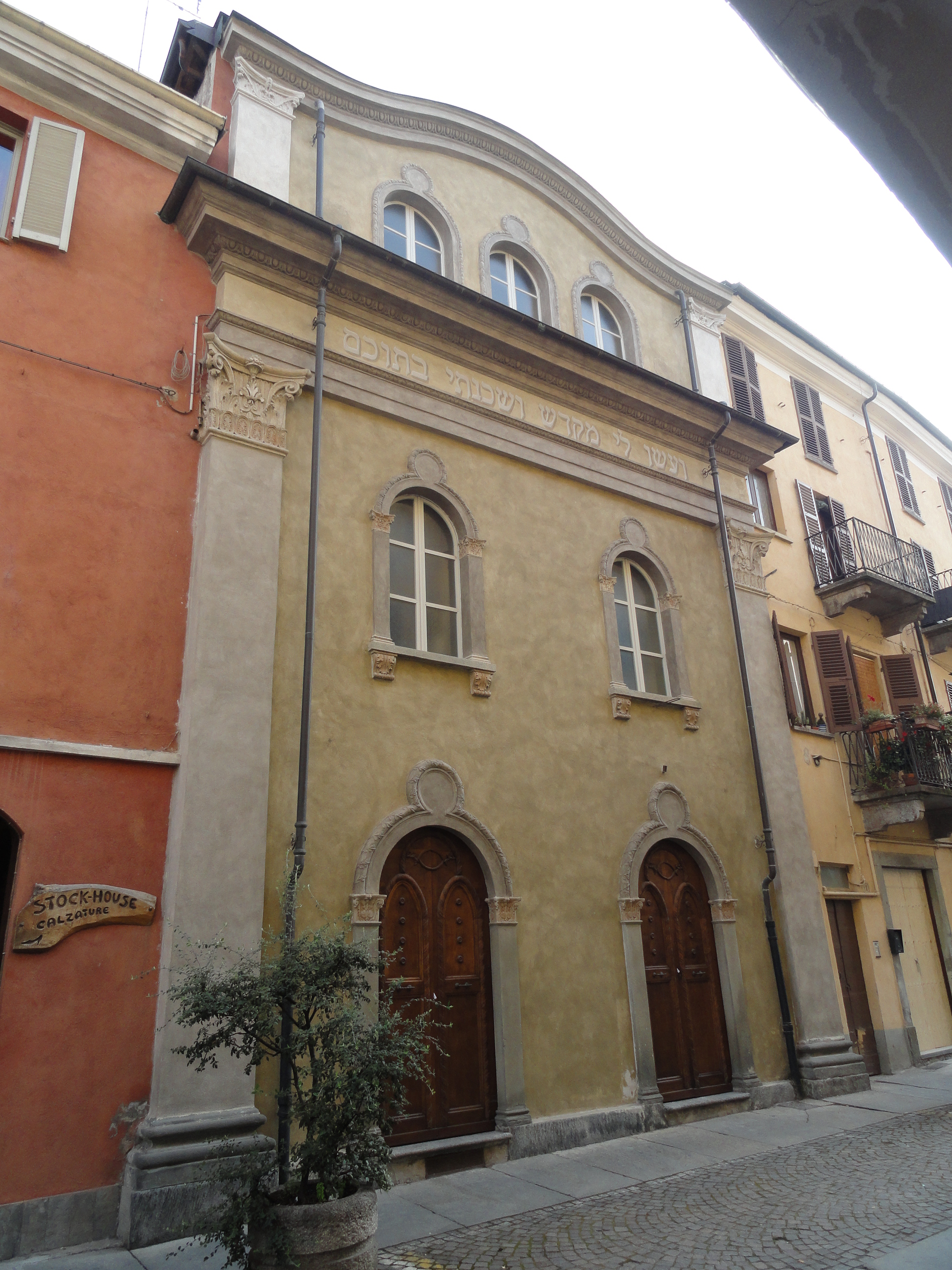 Synagogue of Cuneo (Piemonte - Italy); front